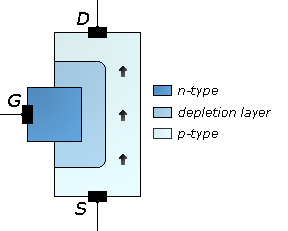 This diagram of a junction gate field effect transistor (JFET) was created and uploaded by User:Rparle on September 19, 2004.